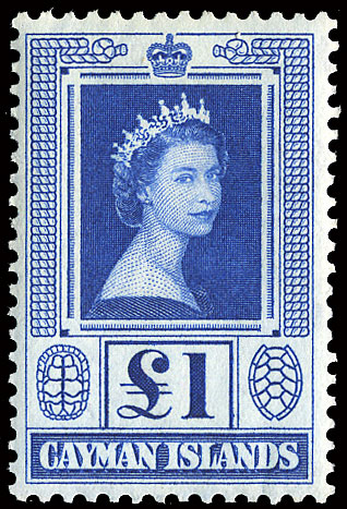 Stamp of Cayman Islands, Queen Elizabeth II, 1959, 1 pound. Series: Definitives.